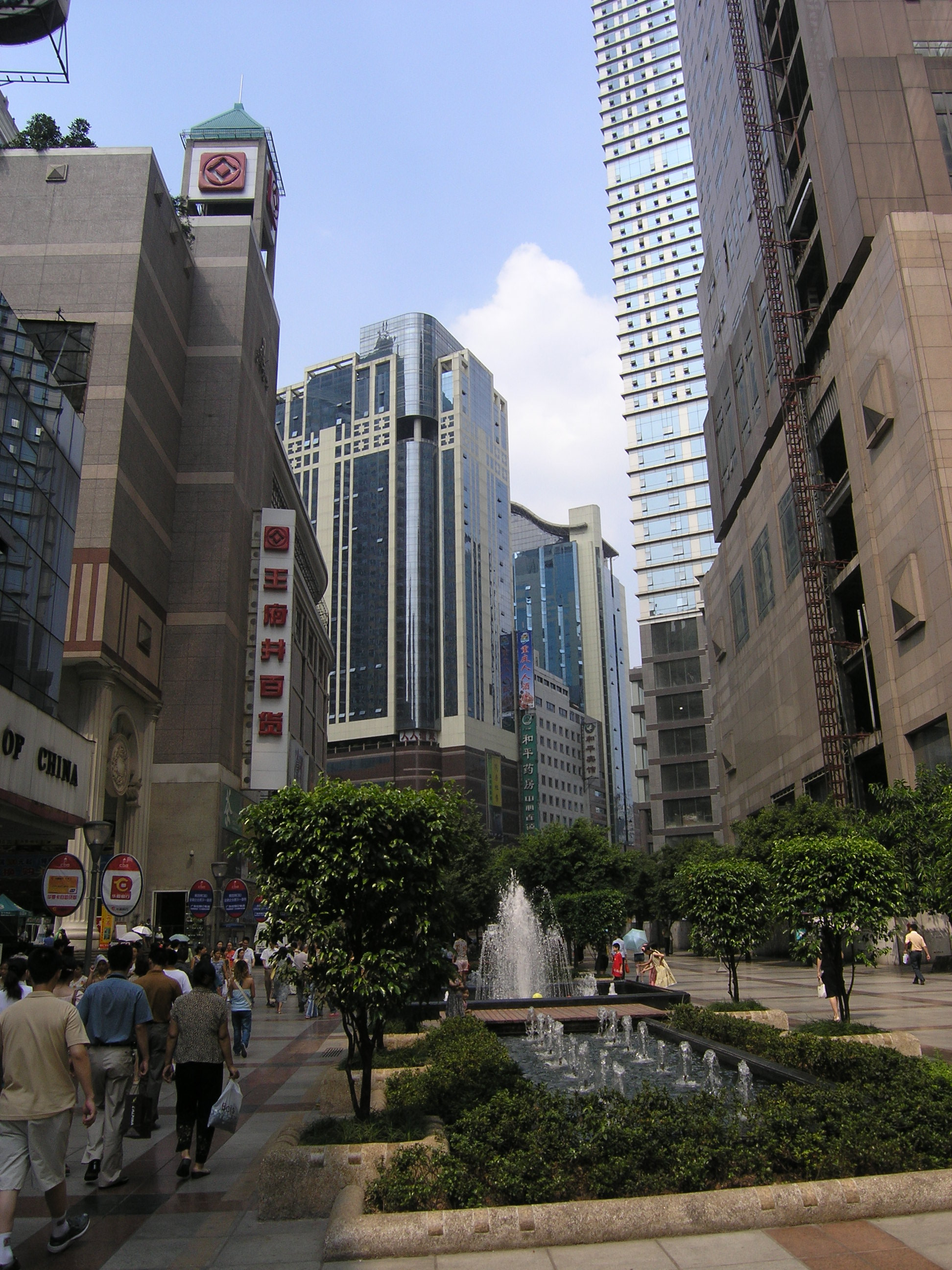 Description: Towncentre of Chongqing, China Source: Photograph by myself Date: August 2004 Photographer: m1la